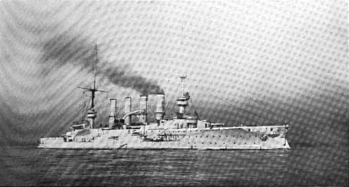 The German armored cruiser Gneisenau